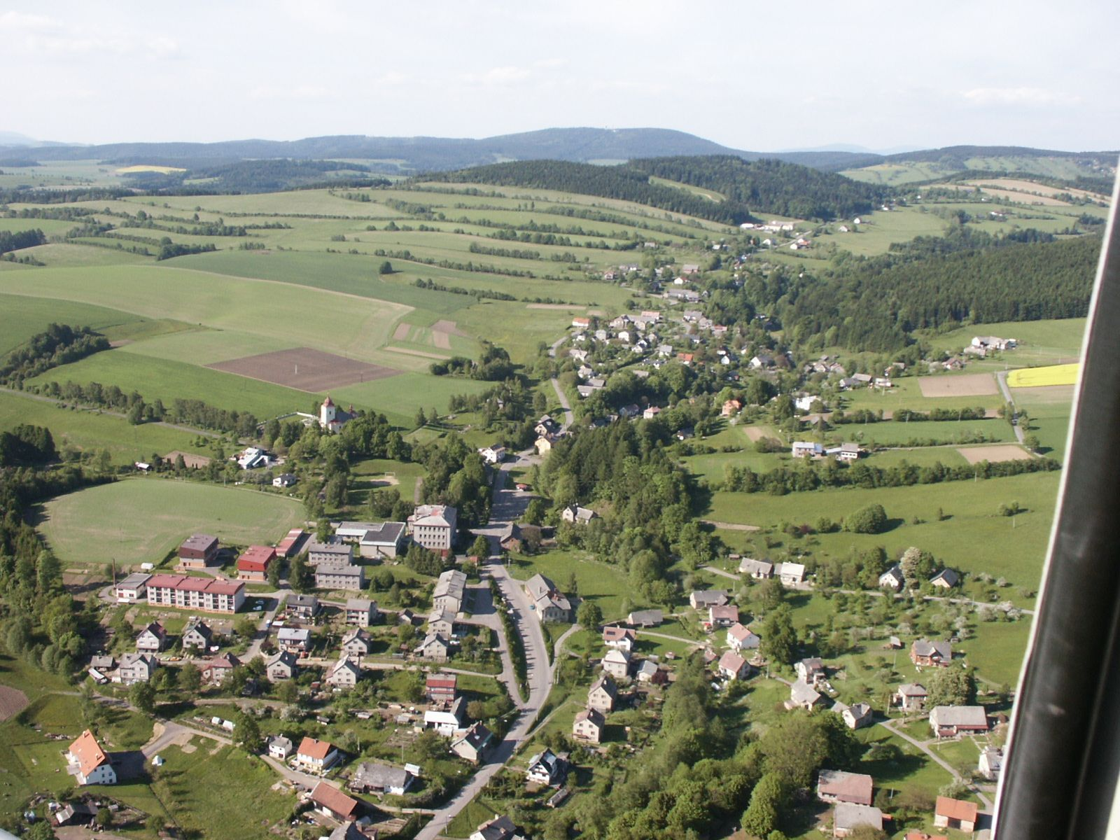 Výprachtice and hills and mountains of Orlické hory mountains.